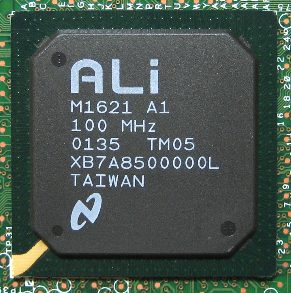 M1621 is ALi's northbridge chip (also with a National Semiconductors logo).中文（台灣）: 揚智科技的插槽CPU專用北橋晶片M1621，支援的CPU插座為Slot 1 / Socket 370